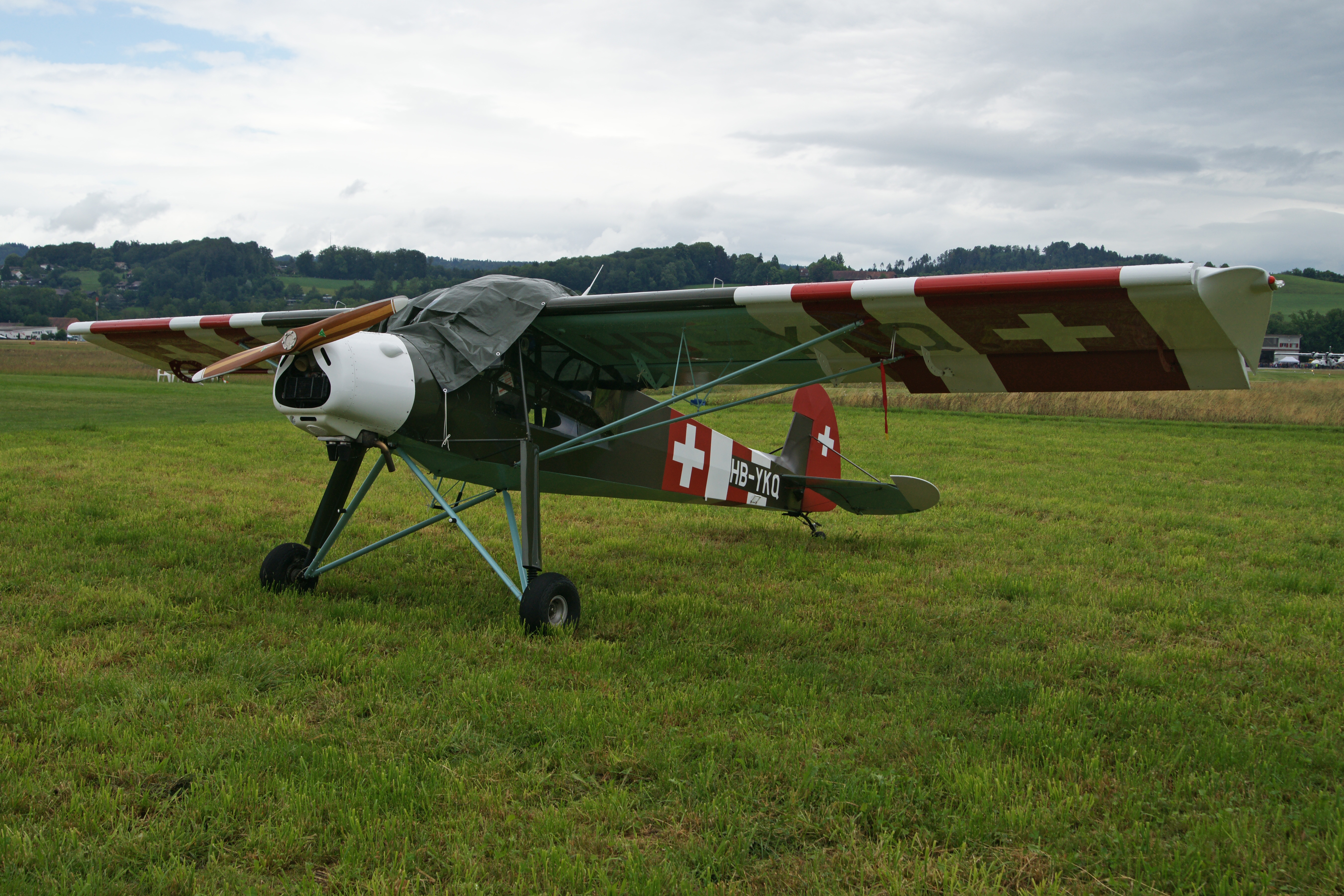 Fieseler Storch rebuild Slepcev Storch, HB-YKQ, parked at the IBT'11 air show at Bern-Belp airport, Switzerland.